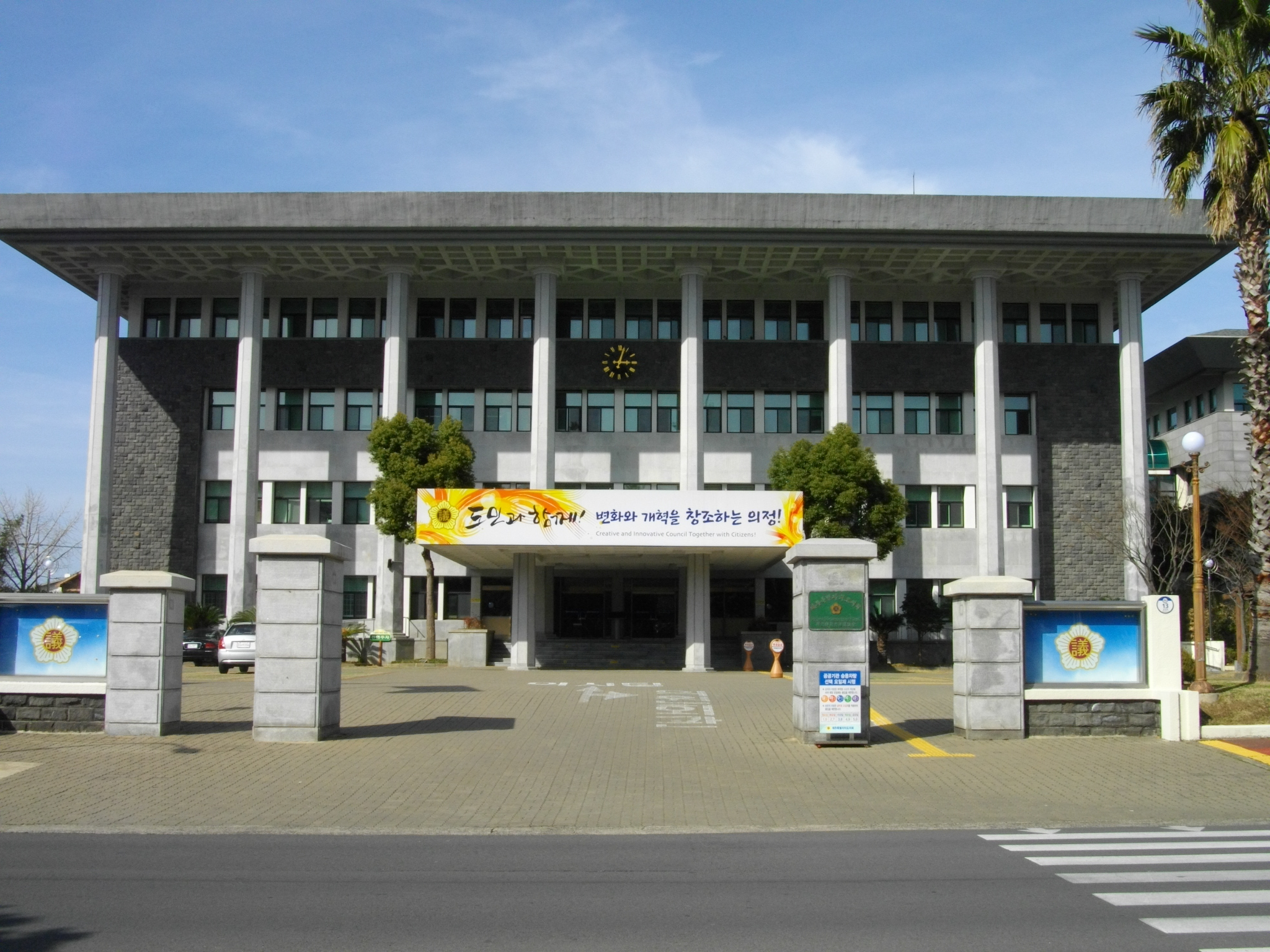 Jeju Special Self-Governing Provincial Council